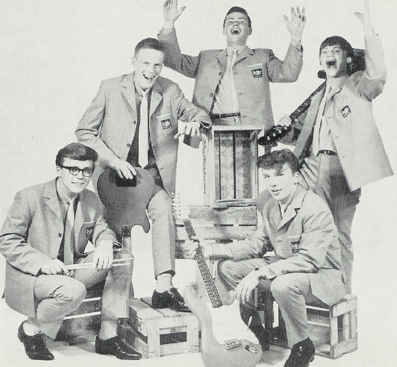 The Saints band from Finland